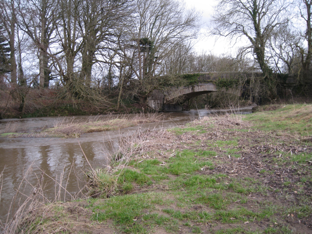 Teign Bridge. It carries the Old Exeter Road over the Teign. The river is fairly full and is flowing fast away from the camera. The island in 992002 is almost submerged.